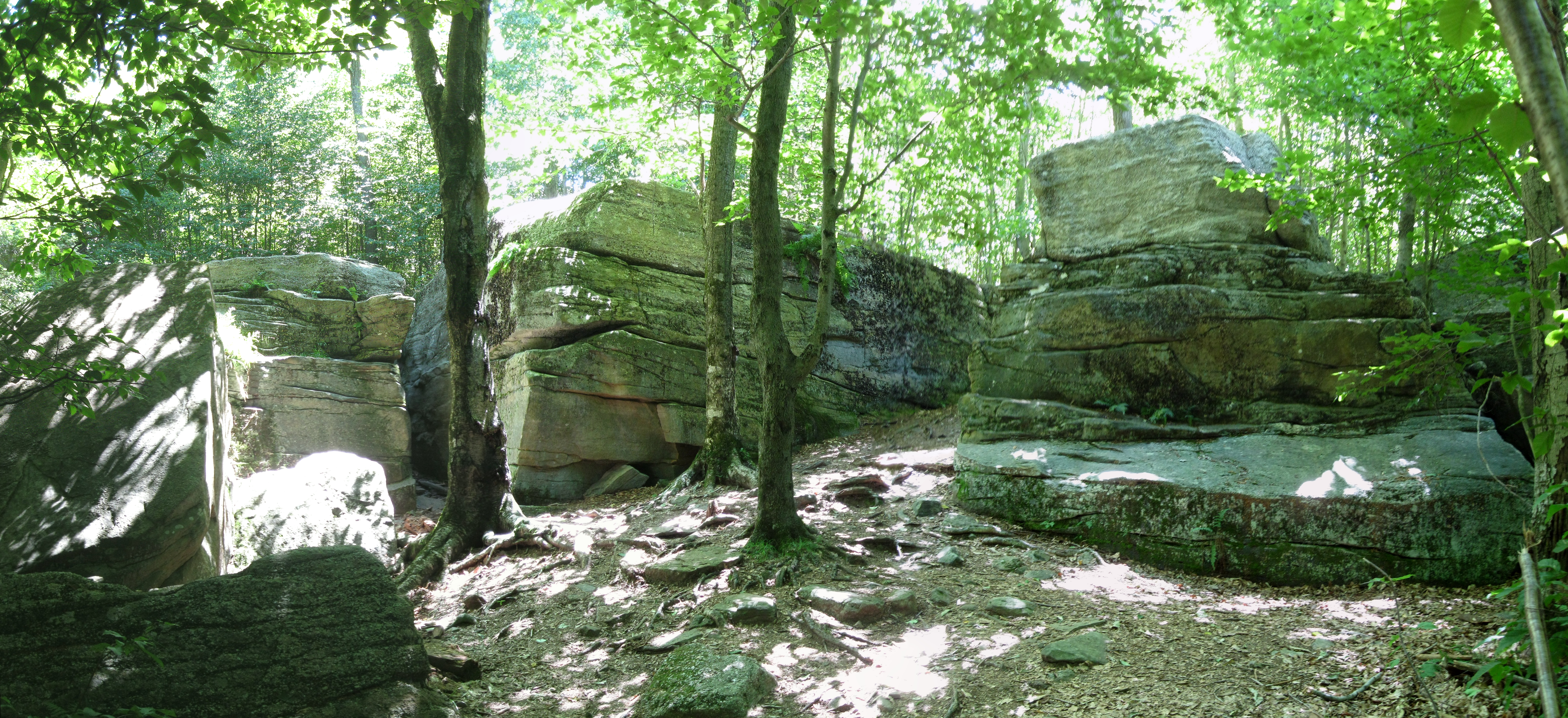 Pottsville Formation conglomerate rocks in the Rock Garden formation in Worlds End State Park, near Forksville, Sullivan County, Pennsylvania, USA.